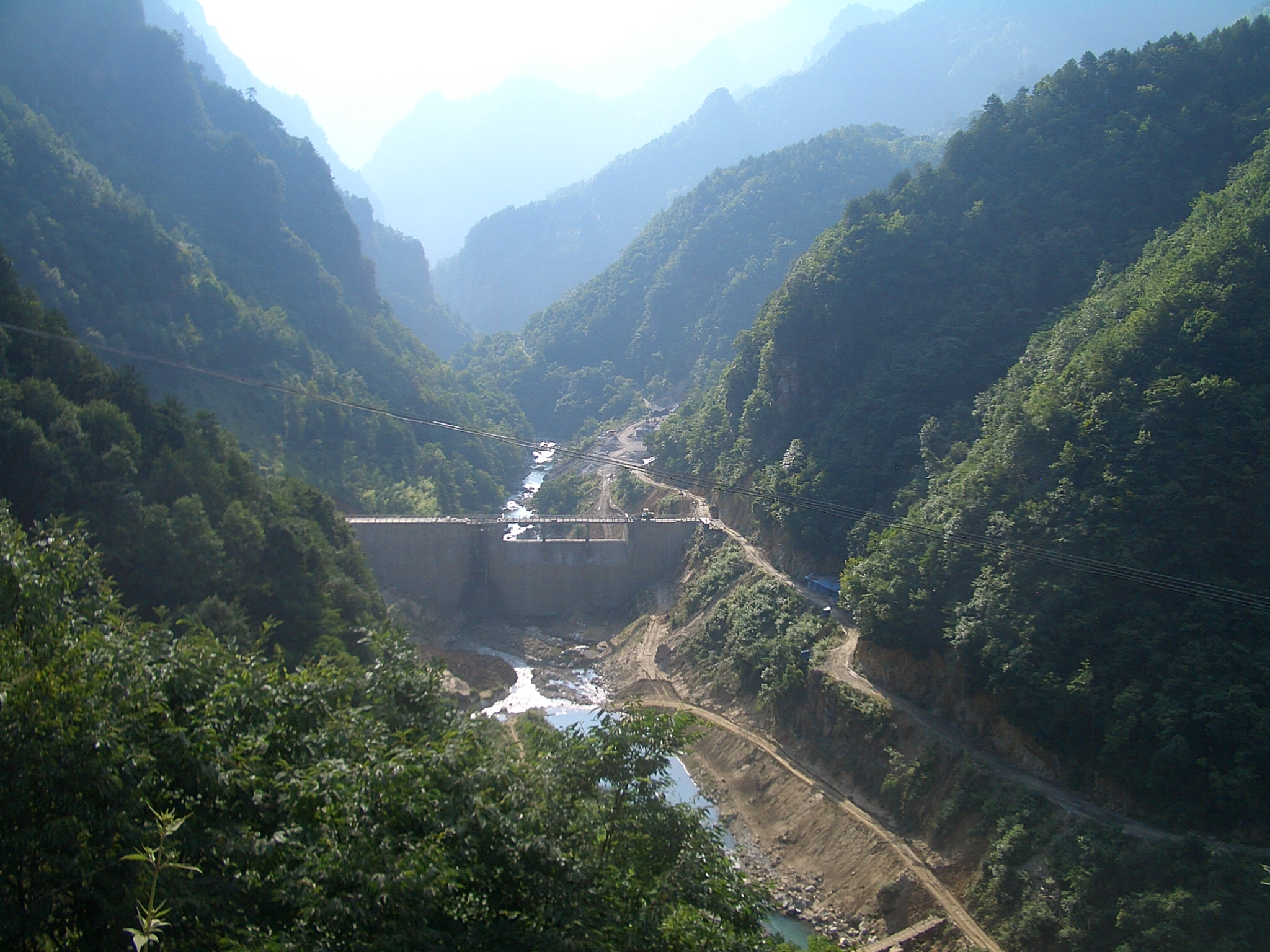 Dam under construction in a deep valley (probably, of the Yema He River), seen looking down from G209, a few km south of Hongping, in Shennongjia Forestry District.